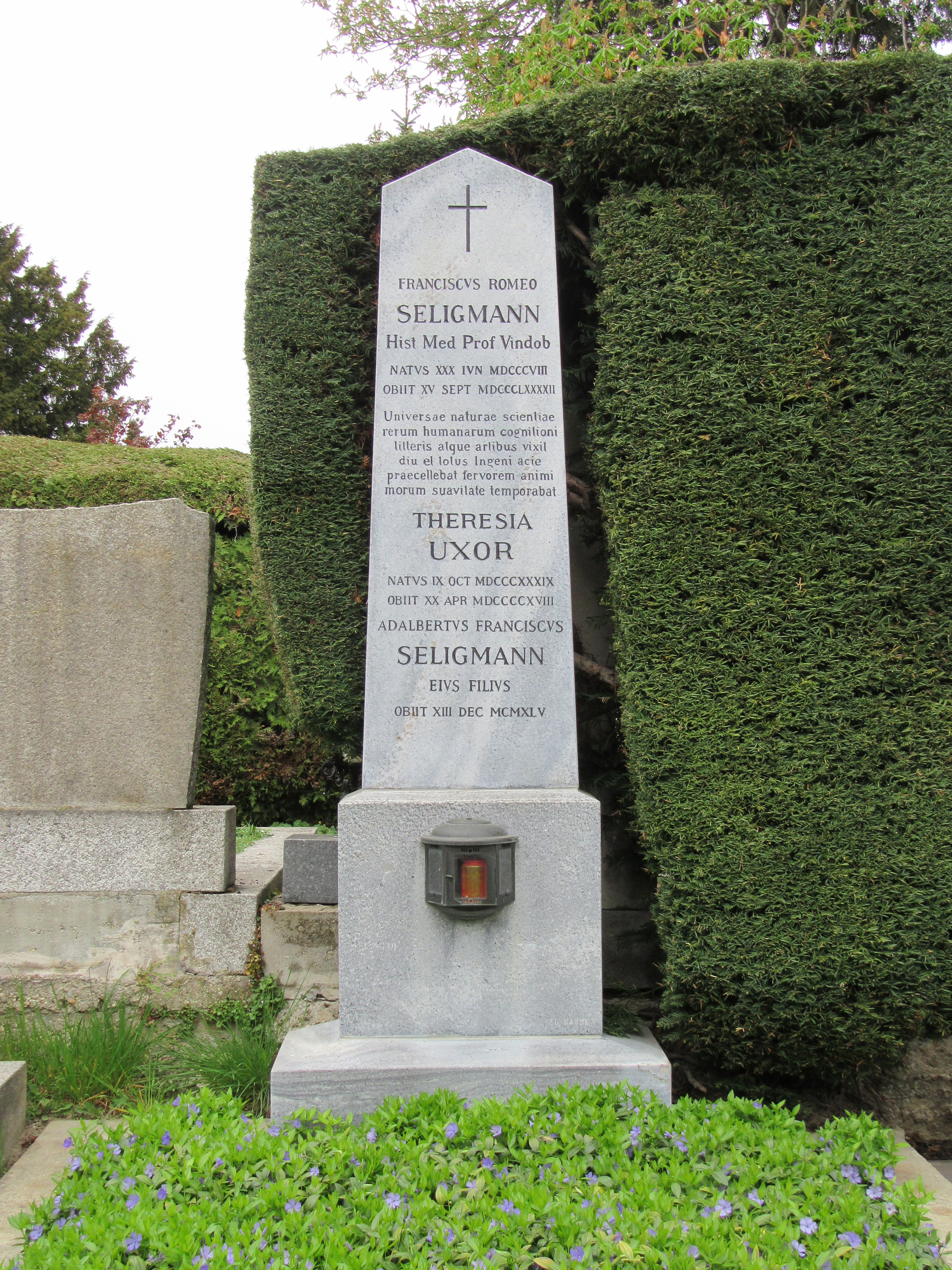 Grave of the medical historian Franz Romeo Seligmann (1808–1892), his wife Theresia and his son, the painter and art critic Adalbert Seligmann (1862–1945). Döbling cemetery, Vienna